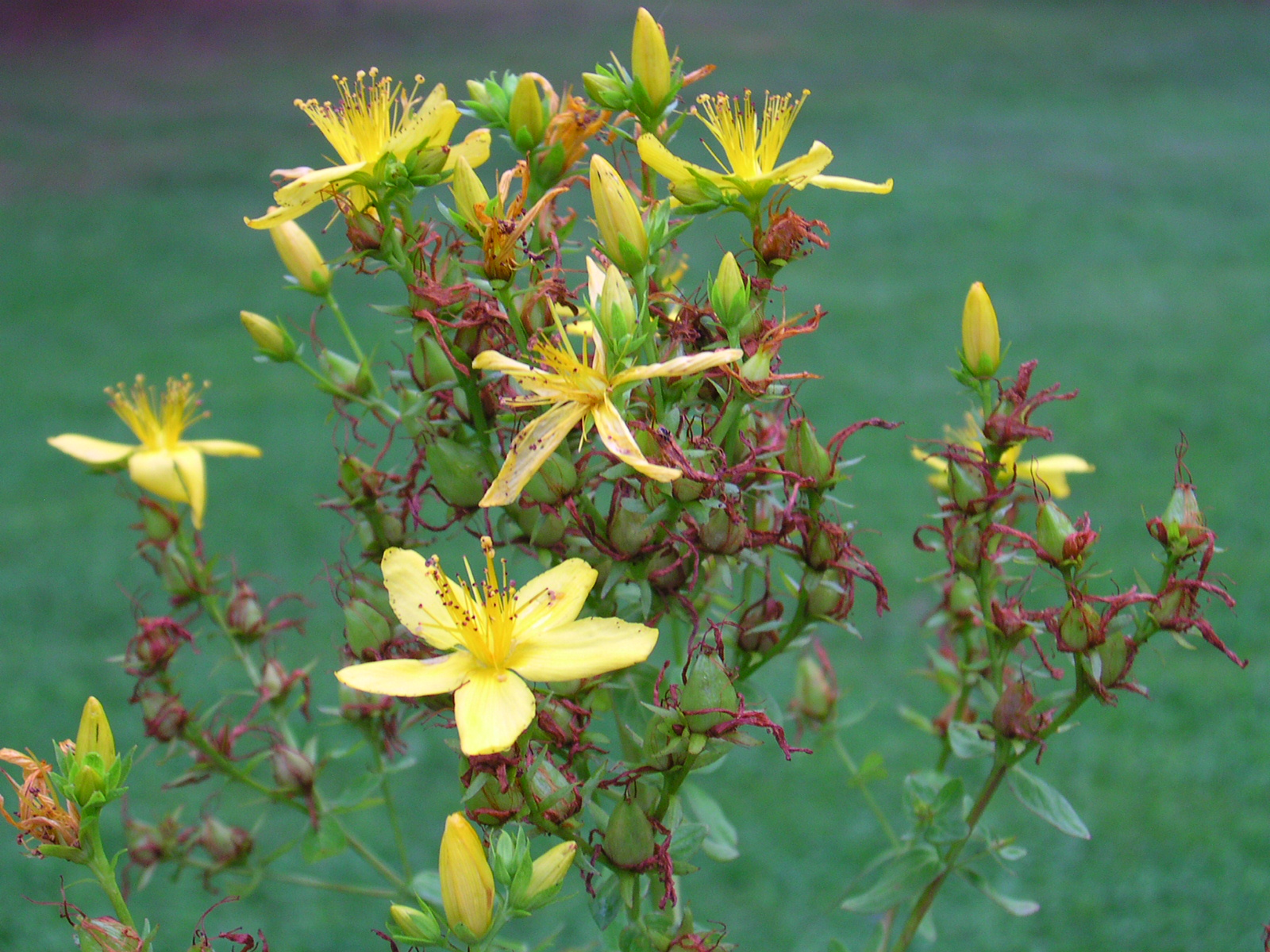 Hypericum_perforatum_1-jgreenlee